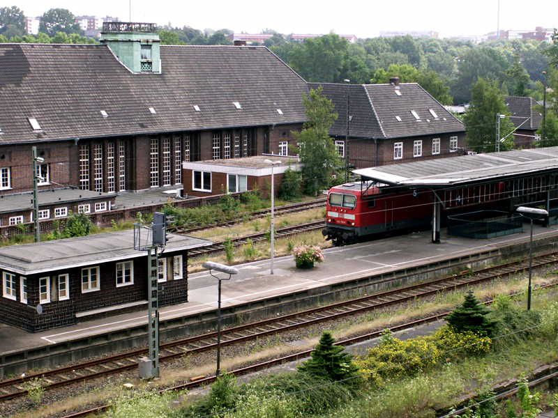 Flensburg railway station